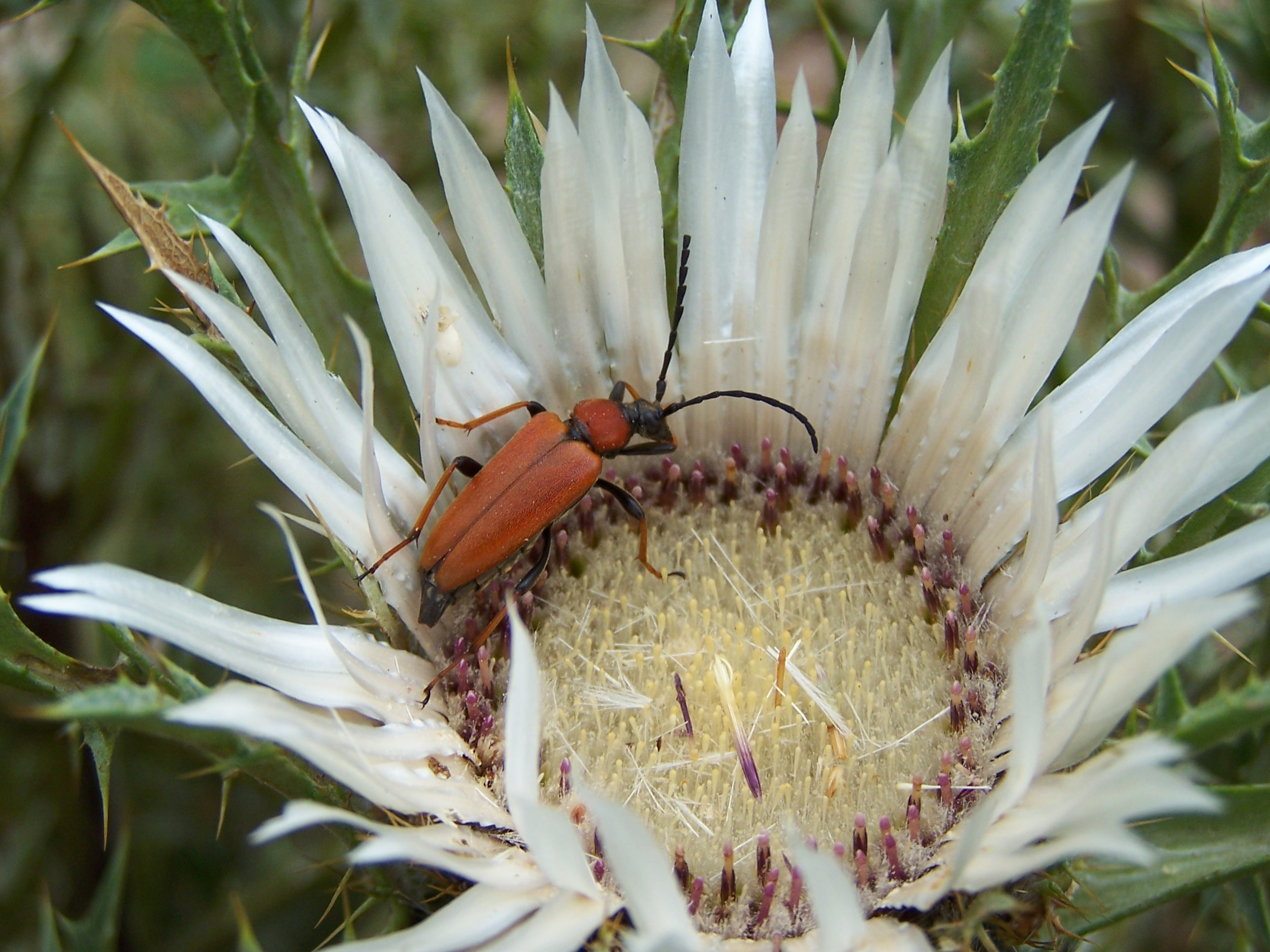 The Stictoleptura rubra (Linnaeus 1758) (syn Aredolpona rubra) on a mountain thistle. Taken in France.